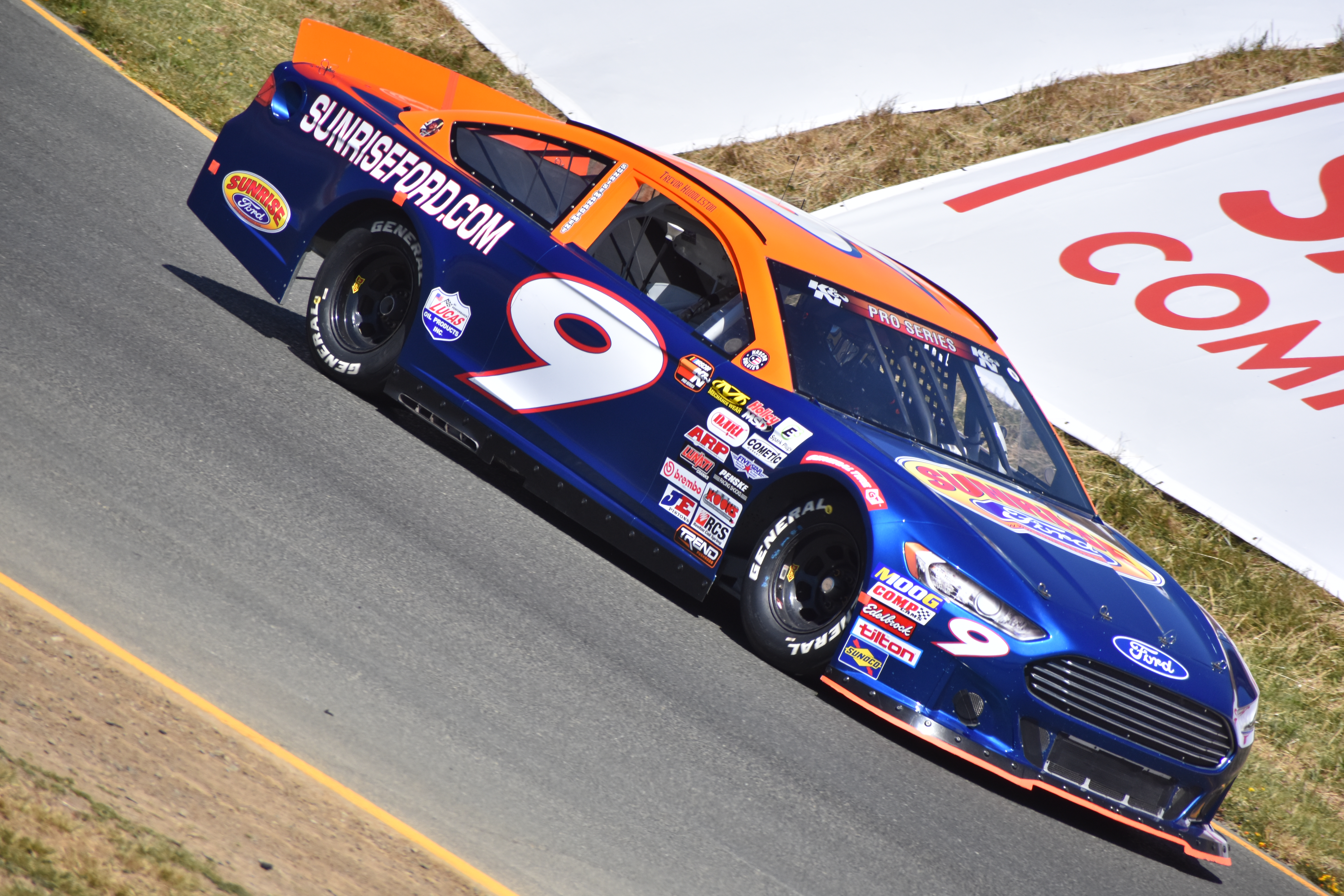 Trevor Huddleston during qualifying at Sonoma Raceway in 2019